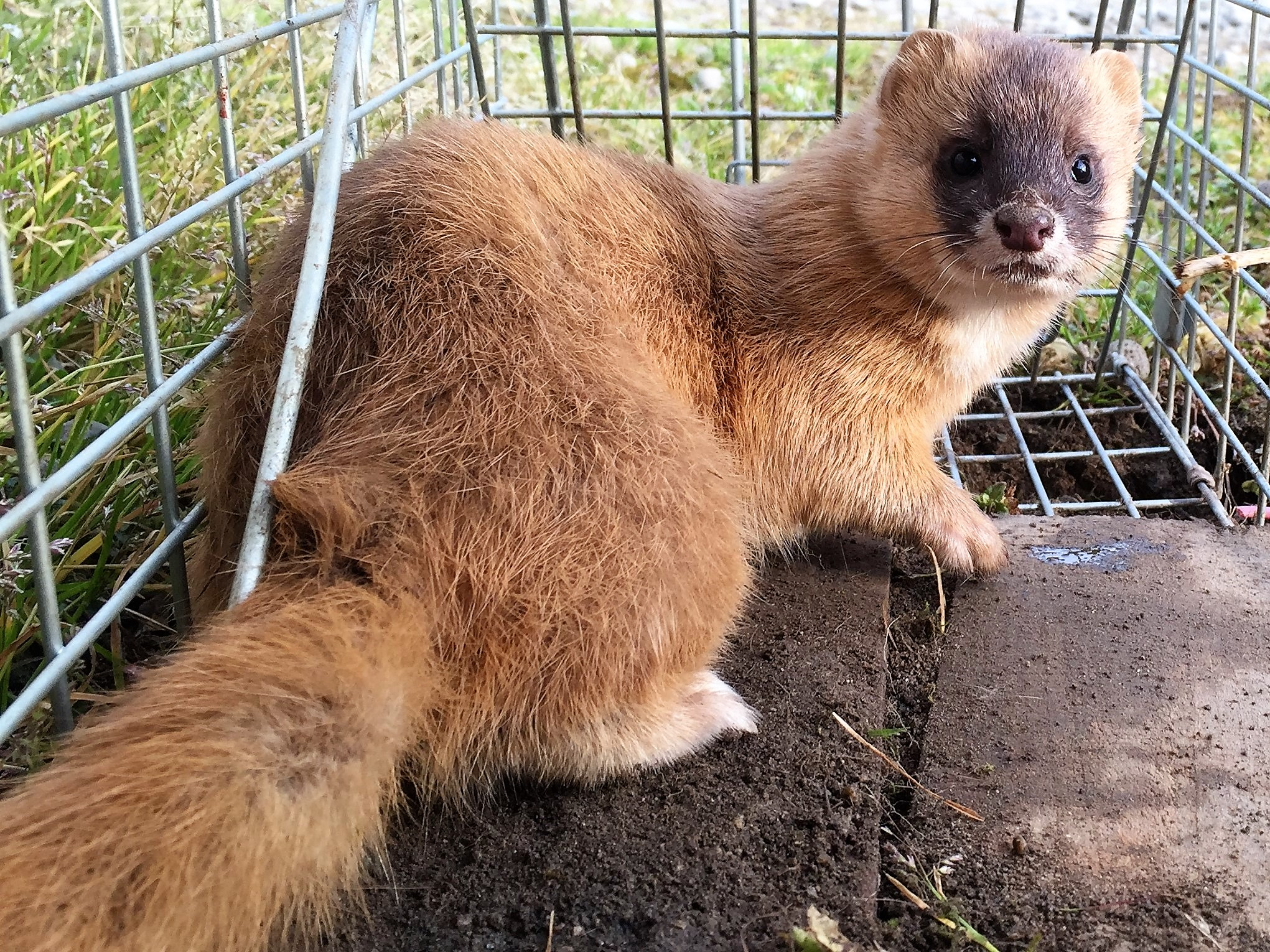 Mustela sibirica hiroshima, JAPAN